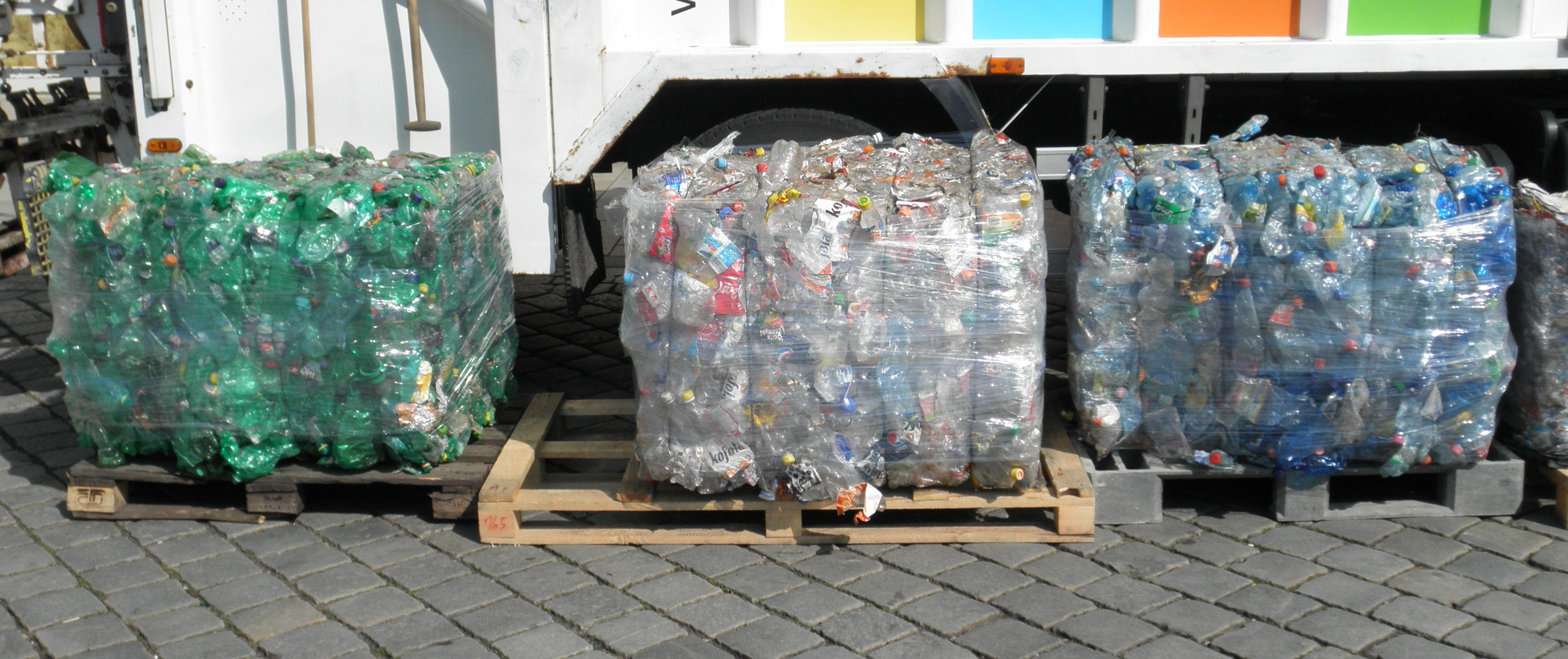 Bales of crushed PET bottles sorted according to the colour to green, transparent and blue ones. In Olomouc, the Czech Republic.